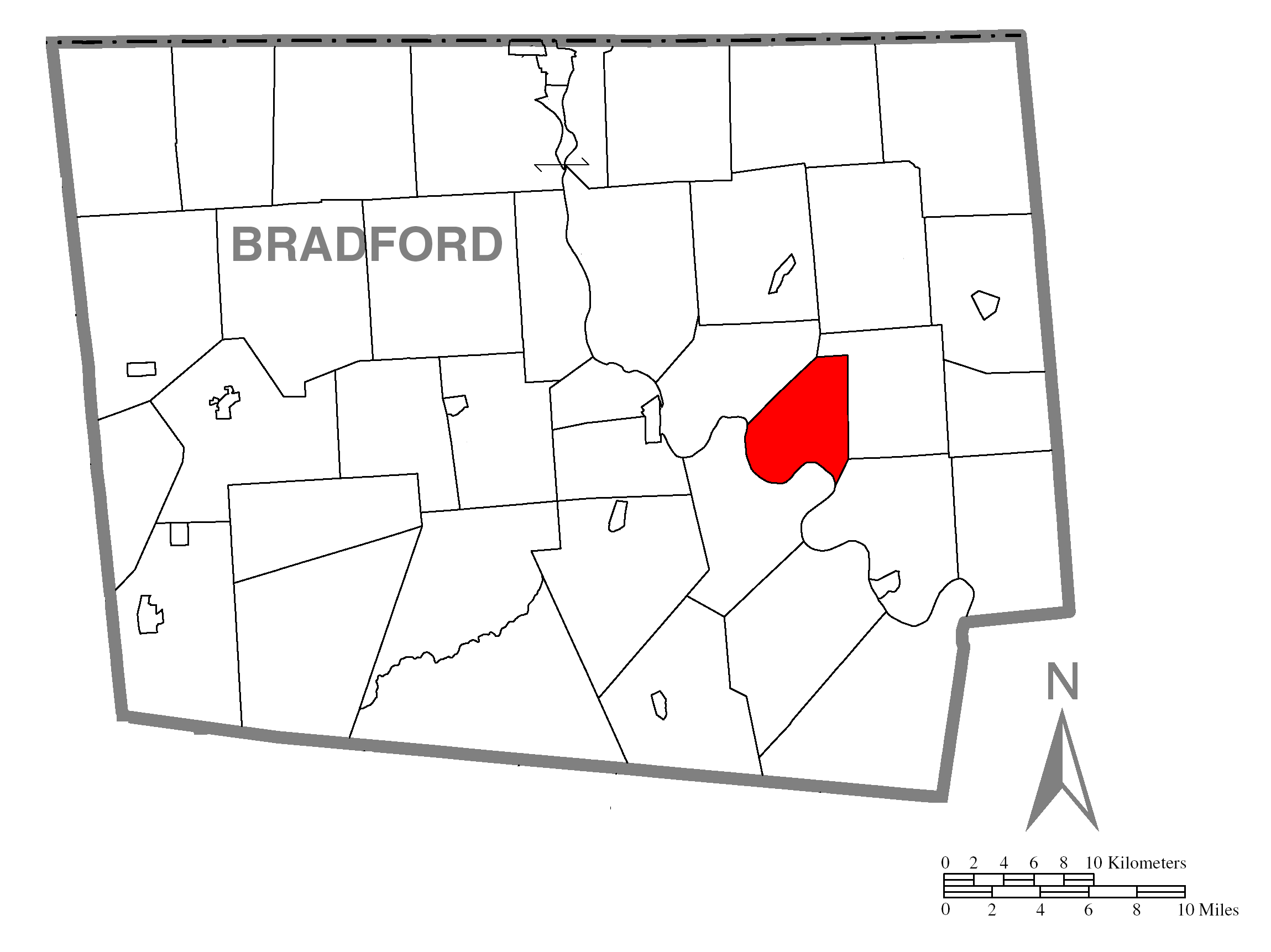 A map of Bradford County showing Standing Stone Township, Pennsylvania (alternate) highlighted on the map.